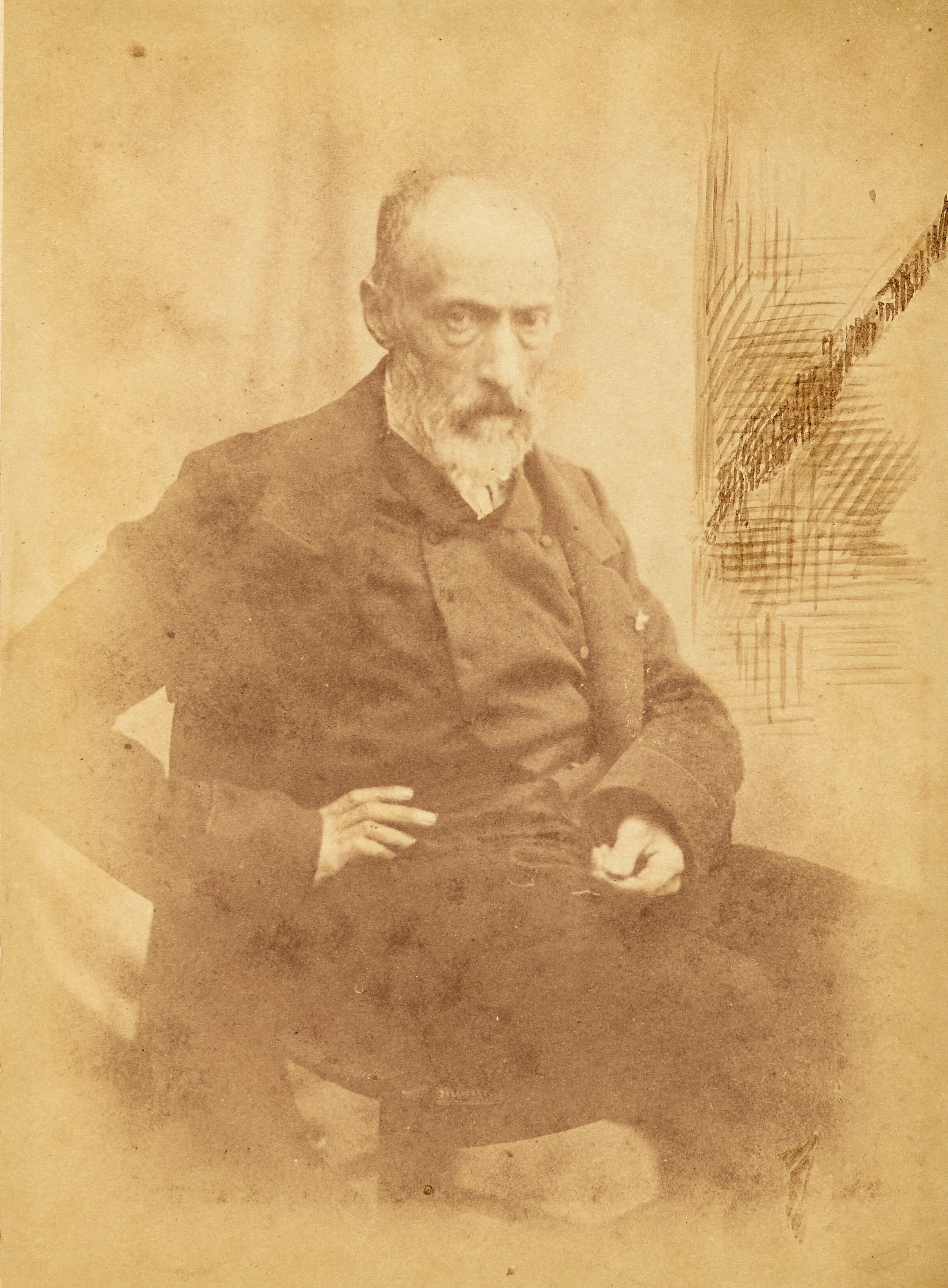 The French painter Achille Devéria